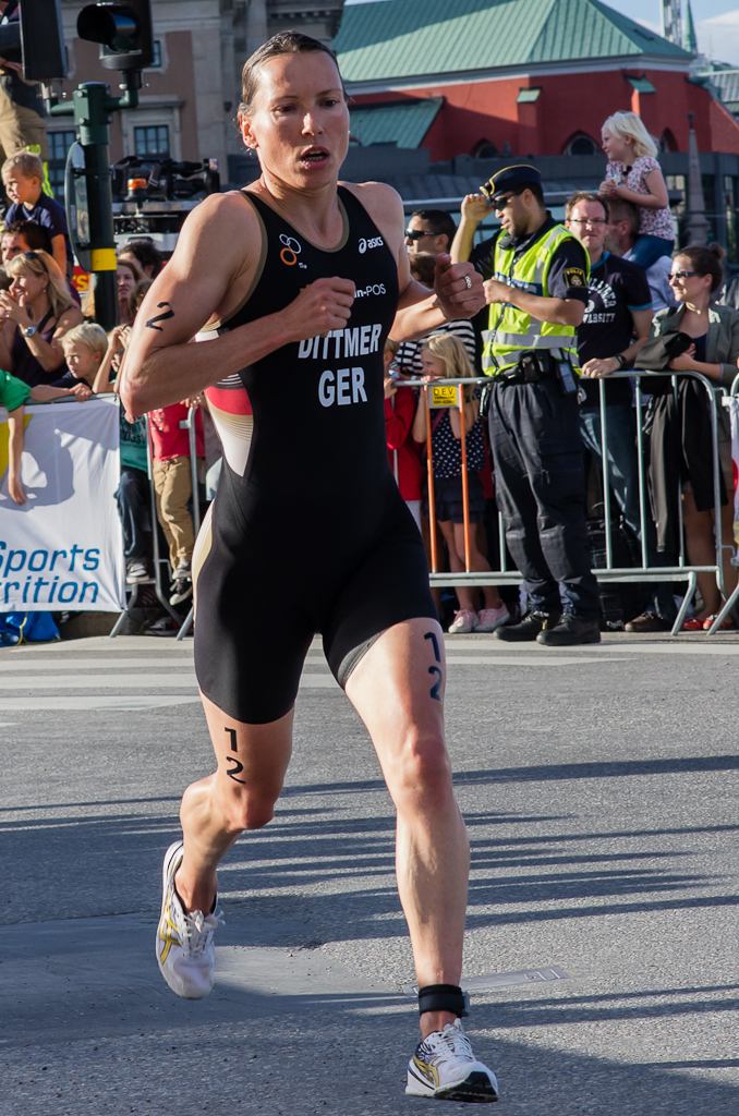 Anja DIttmer competing in Stockholm, 25 August 2012